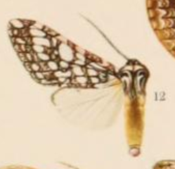 Drawing of Lophocampa hyalinipuncta